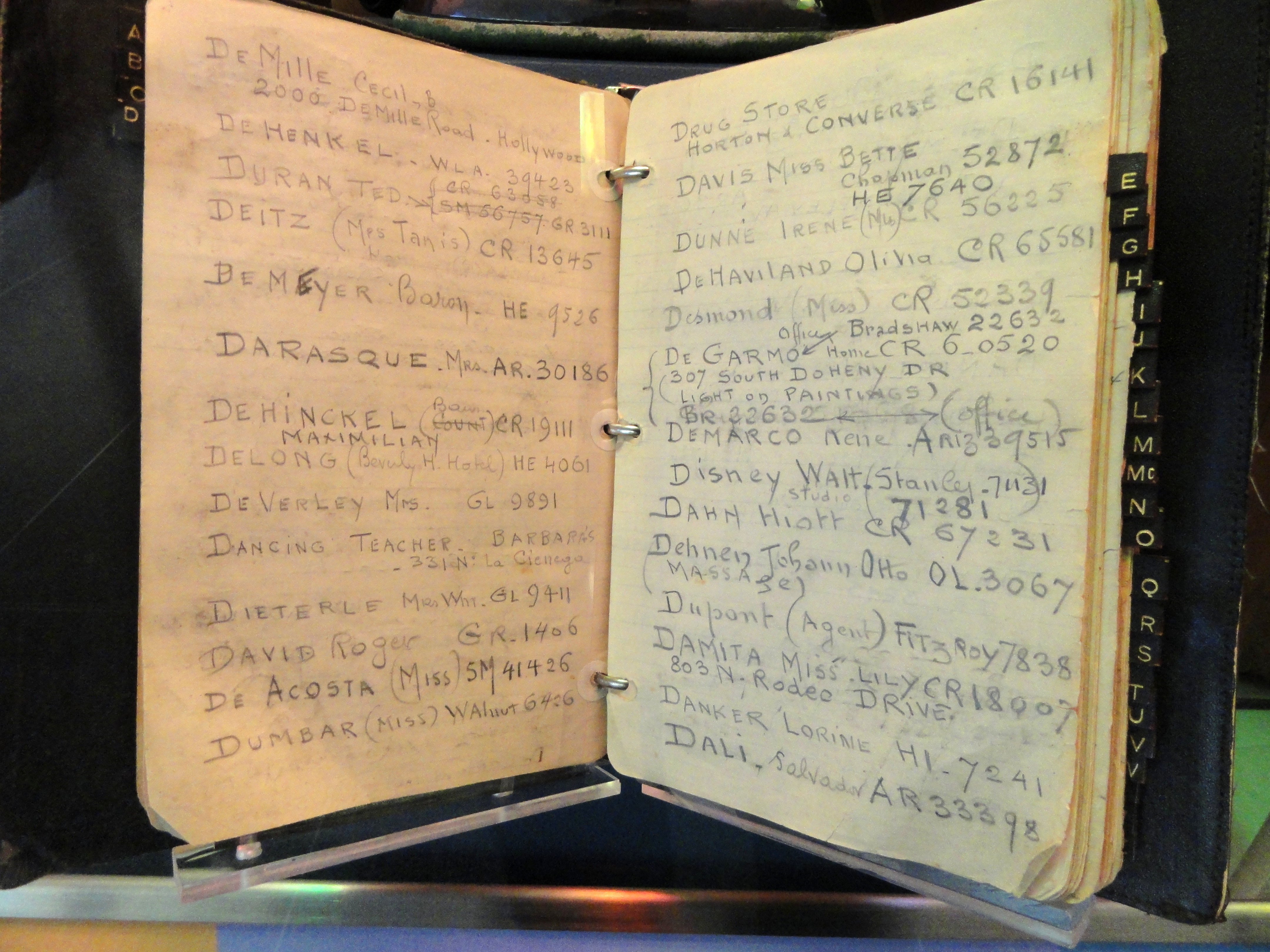 Exhibit in the National Museum of American History, Washington, DC, USA. This item is in the public domain because it is property of the national museum.